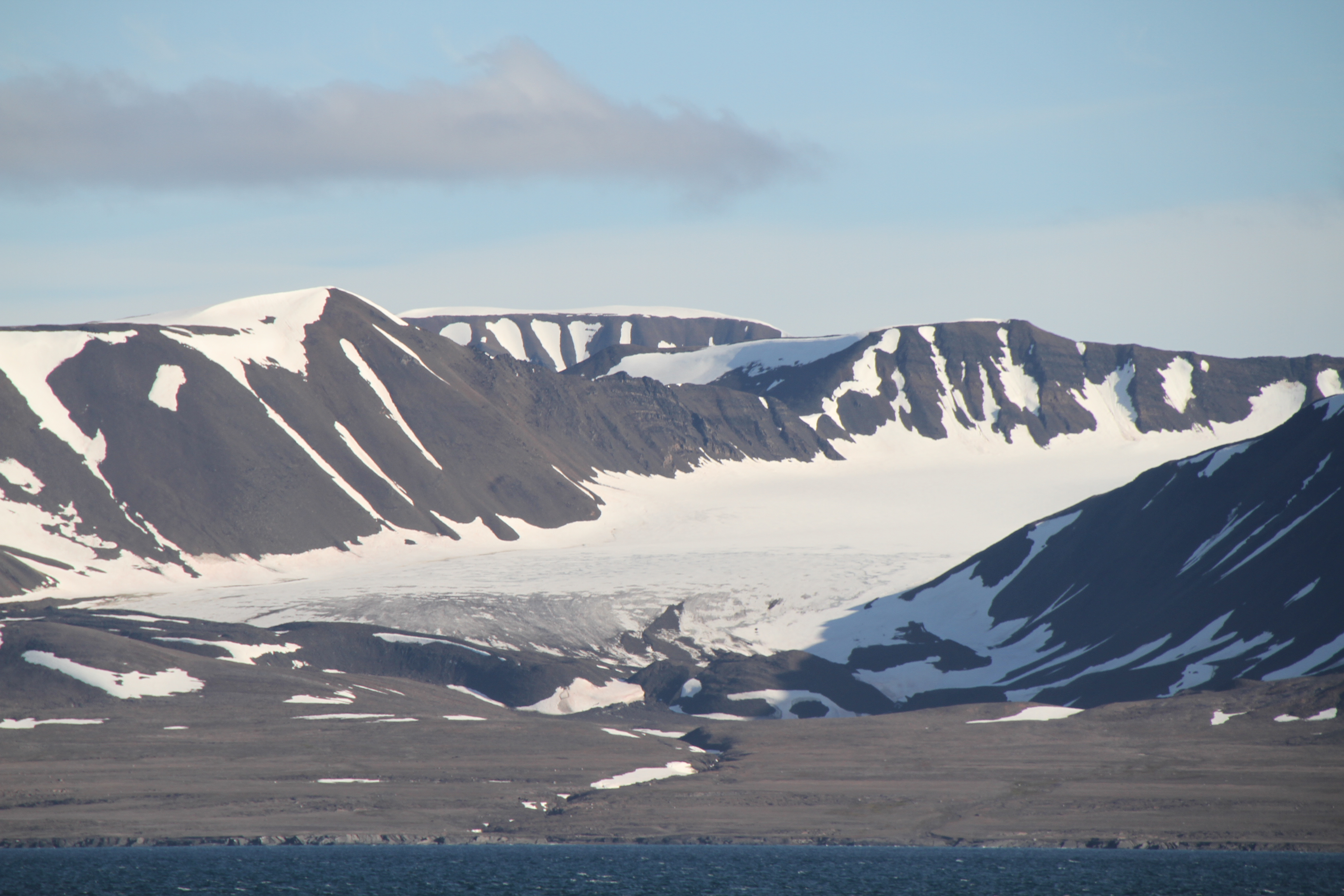 Photo from the mountaineous western coast of the Andree Land peninsula, northeast in Woodfjorden. Andree Land, northern Spitsbergen.